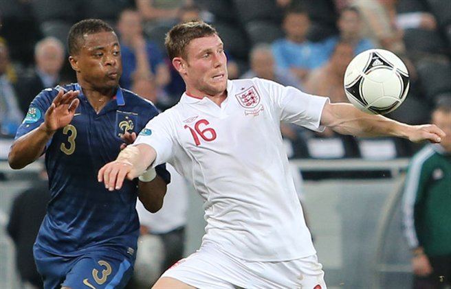 UEFA Euro 2012 match between France and England played in Donetsk at Donbas Arena. Final result was 1:1 (Nasri, Lescott).